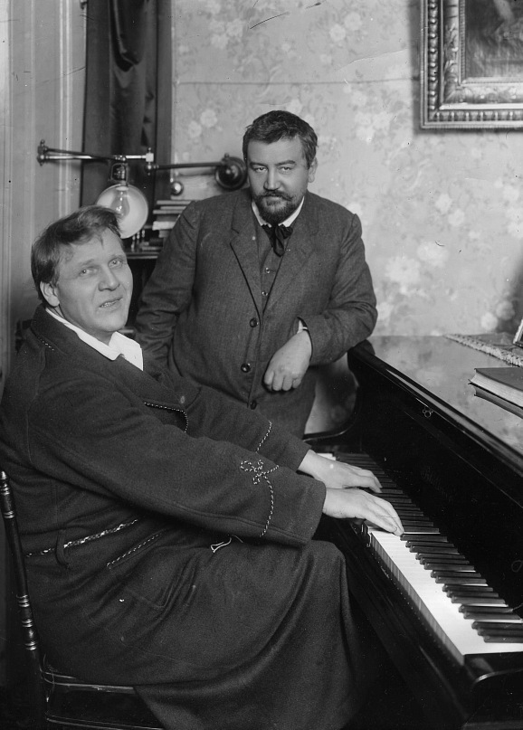 Russians: F.Chaliapin and writer A.Kuprin.